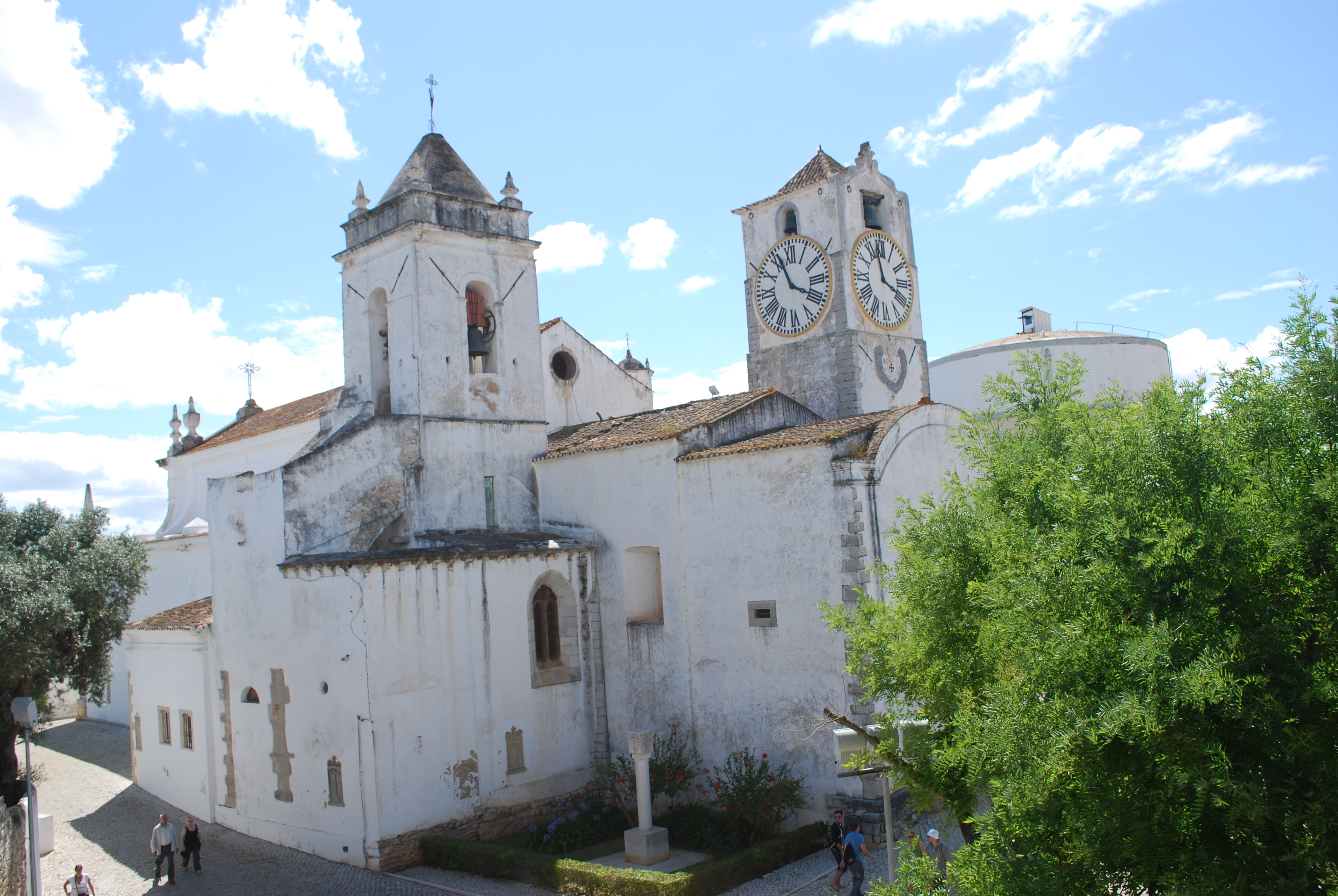 This file was uploaded for Wiki Loves Monuments in Portugal with the unique identifier 71119.